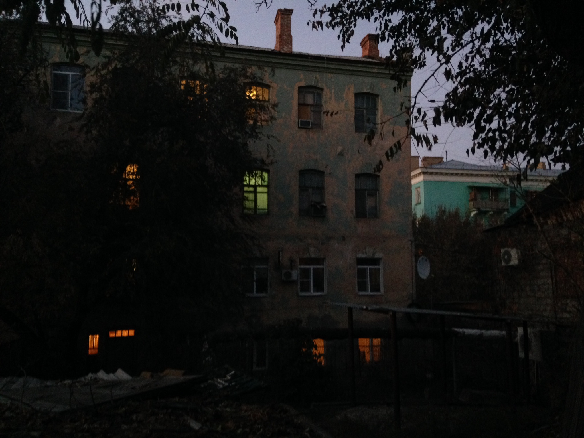 Turgeneva Street in Astrakhan